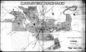 Cover of the cadastral survey done in 1889 in Cordoba City, Argentina.